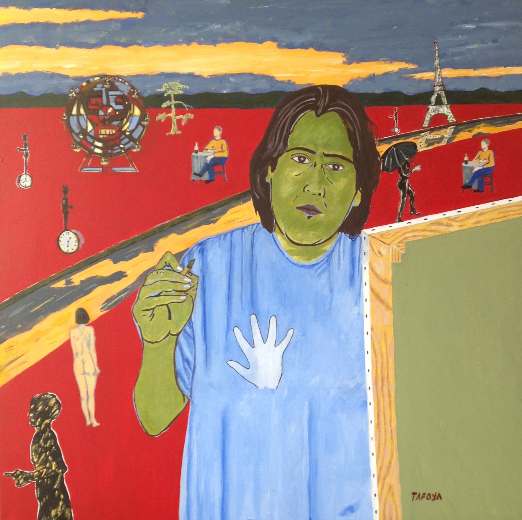 Autorretrato 100 X 100 acrylique sur toile Tafoya11